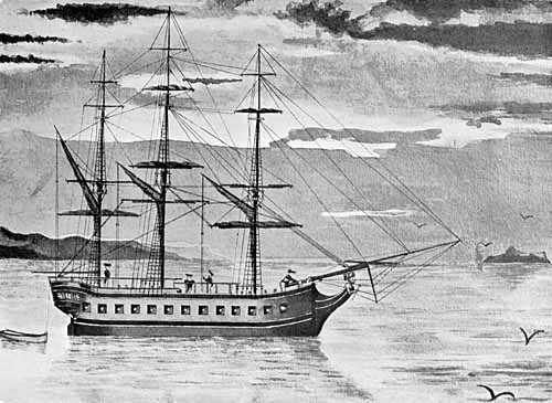 Captain James Cook's ship, Resolution